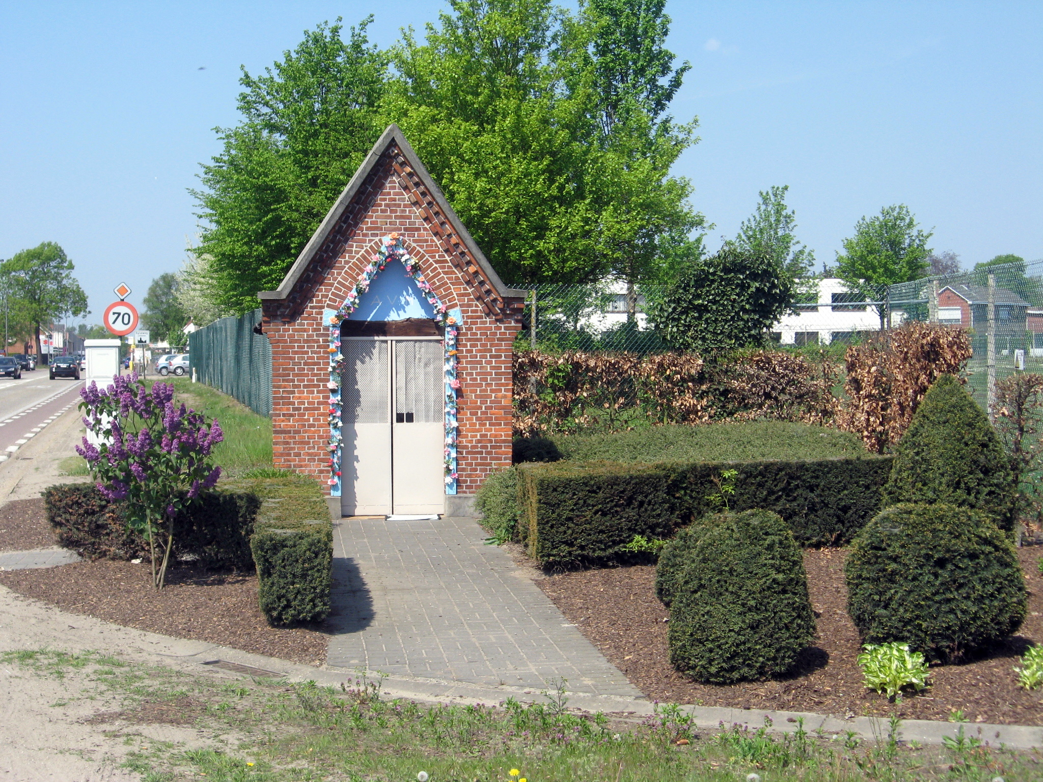 Chapel of Saint Mary at Halveweg, Zonhoven, Limburg, Belgium